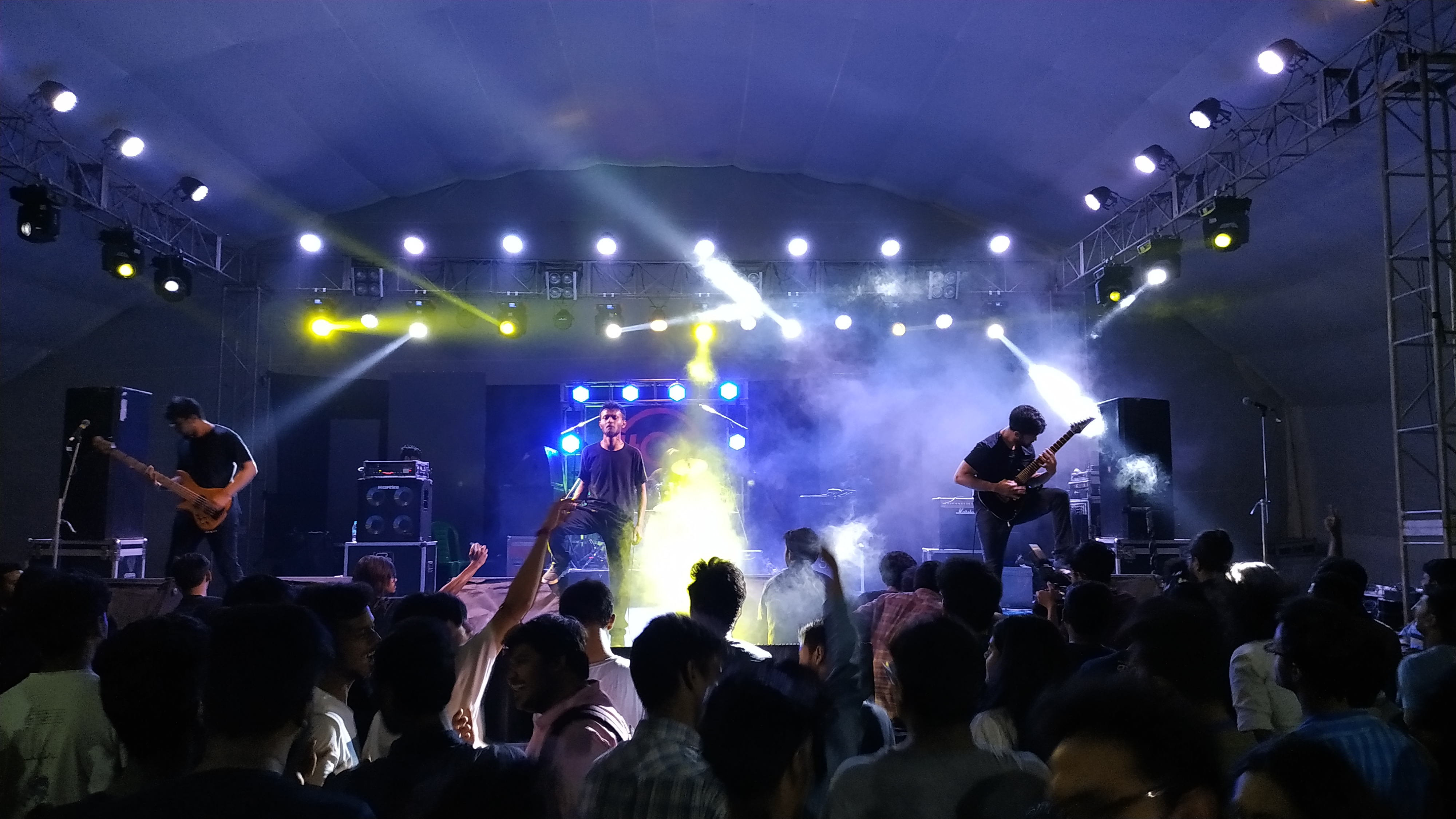 Glimpse of OIKOTAAN 5